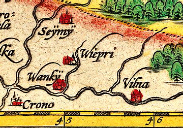 Fragment of the file:LIVONIAE_NOVA_DESCRIPTIO_1573-1578.jpg